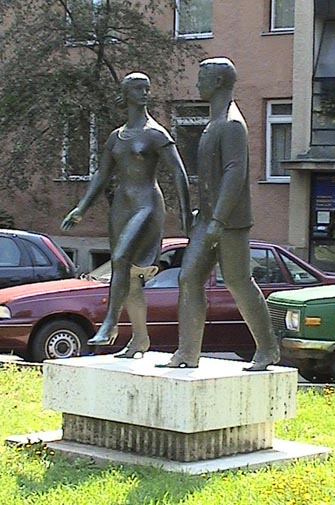 Statue – Sándor Mikus: Young couple. Miskolc, Hungary